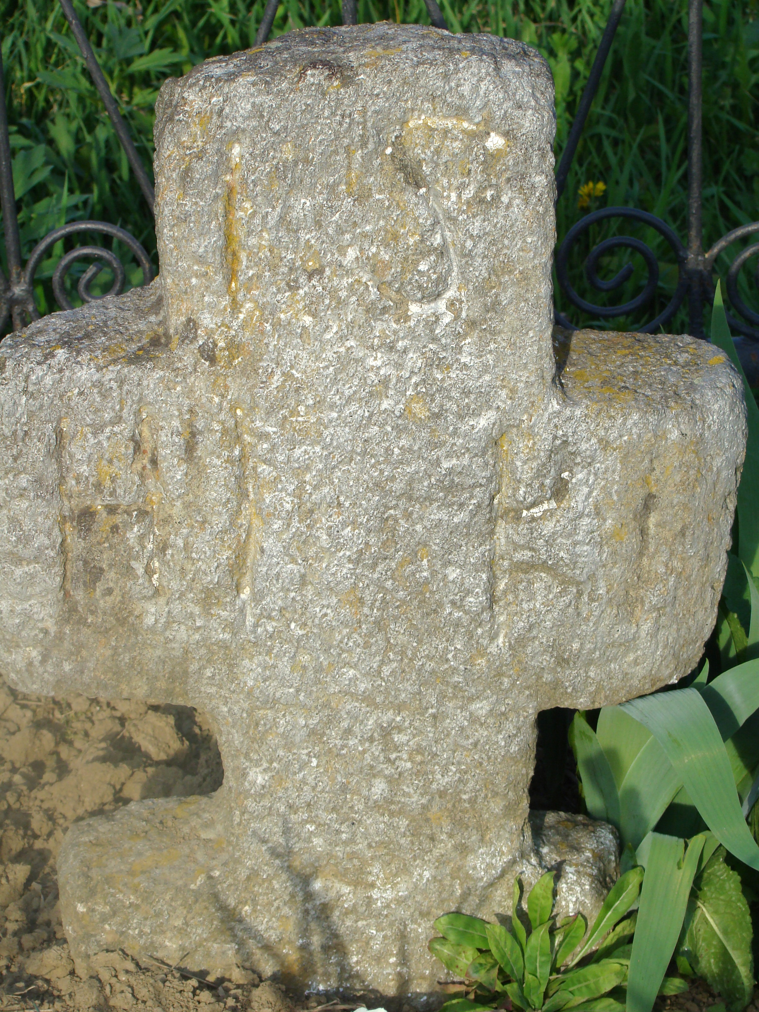 Stone cross in Câlnic, Gorj county, Romania